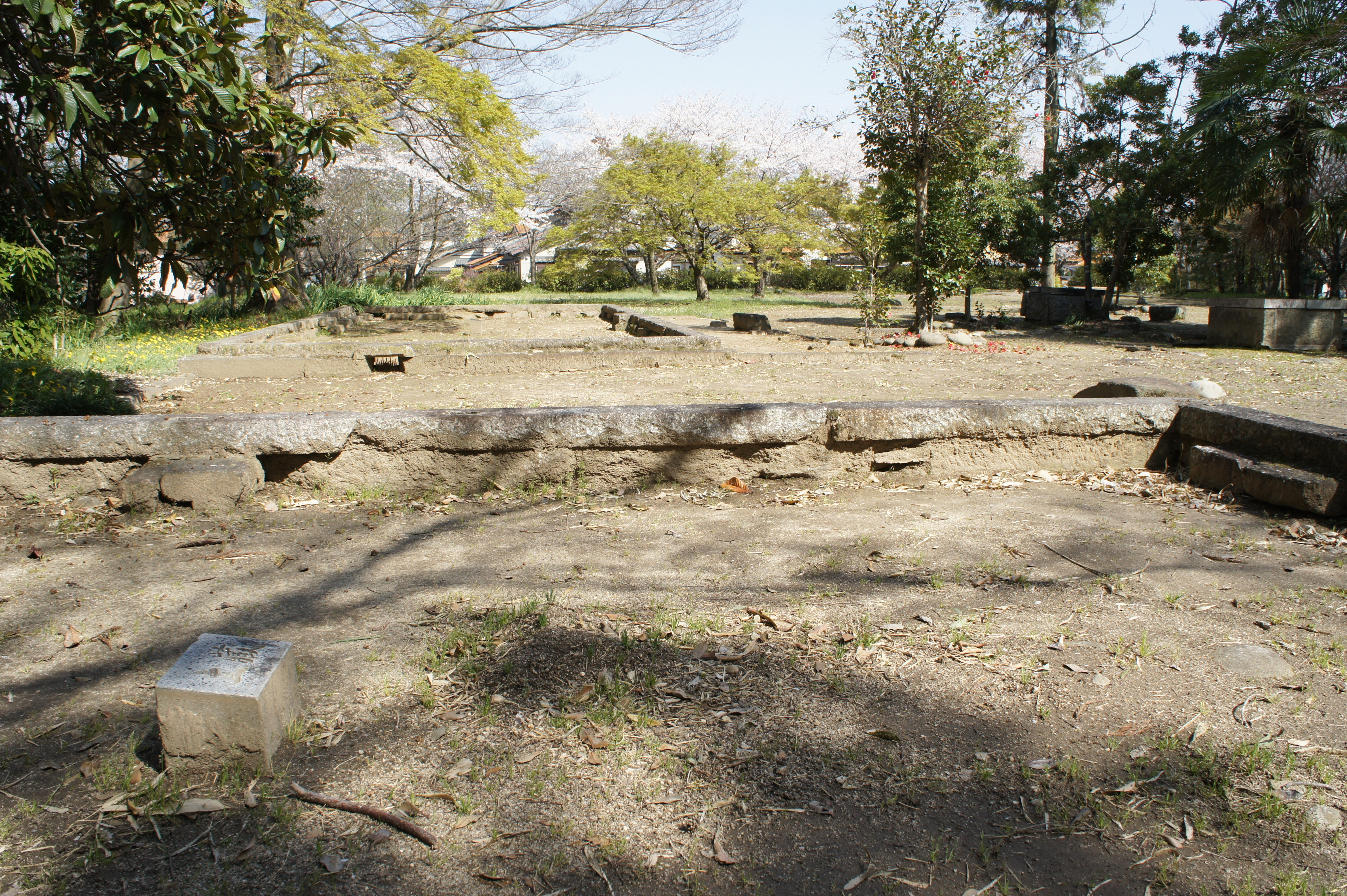 Terabe Castle, Toyota, Aichi, Japan